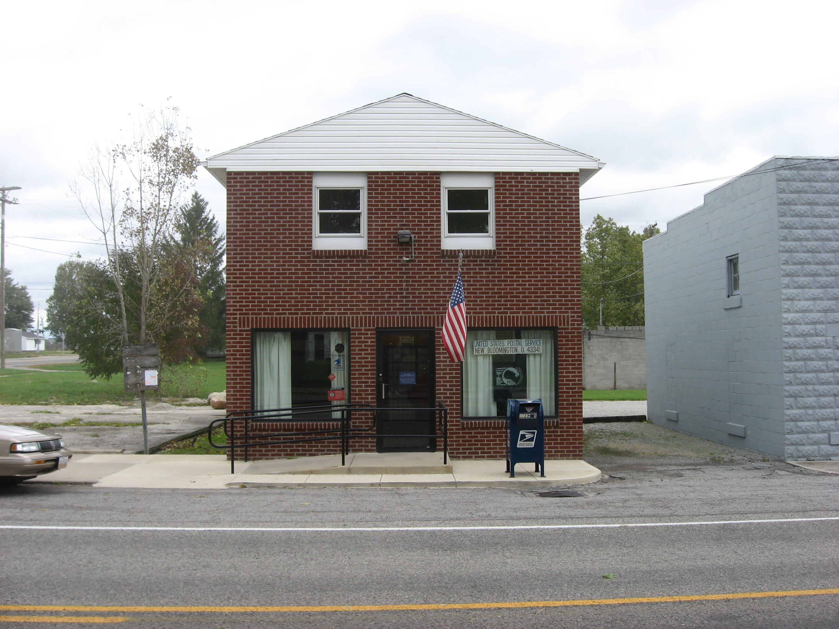 Post office in New Bloomington, Ohio, United States, located at 160 S. Main Street (State Route 95). ZIP Code is 43341.